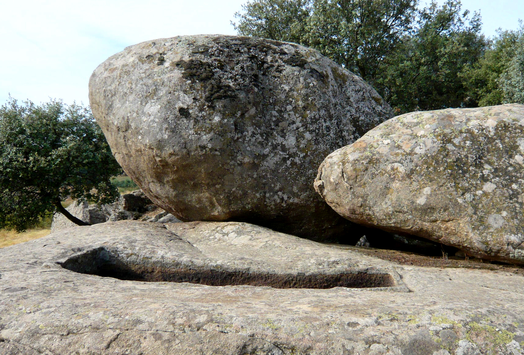 Tomb excavated in the rock, near the Pusa River. Los Navalucillos, Toledo, Castile-La Mancha, Spain